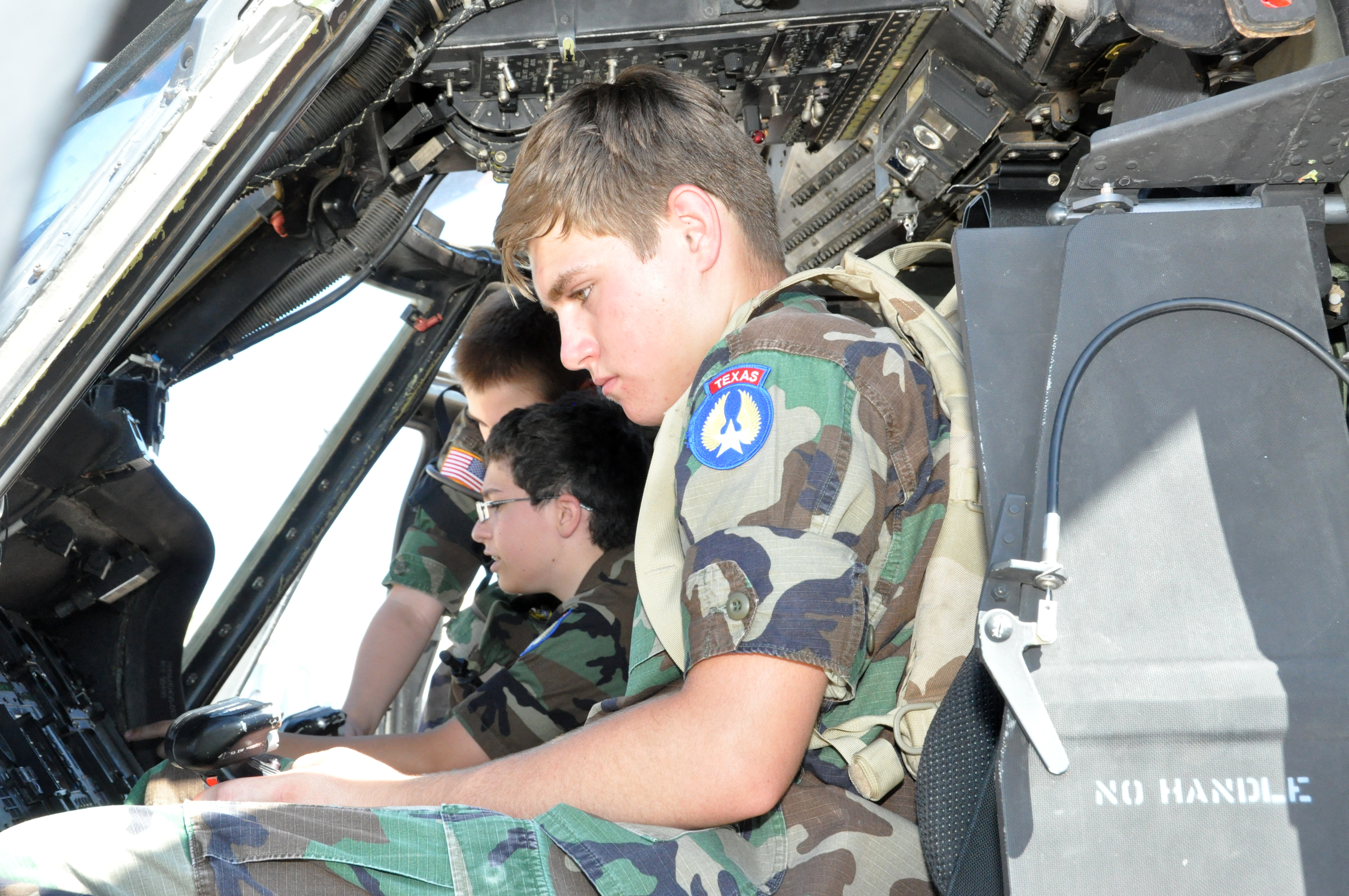 More than a dozen middle school and high school-aged civil air patrol students were treated to a tour of the 305th Rescue Squadron's HH-60 Pave Hawk helicopter June 13 at the Naval Air Station Fort Worth Joint Reserve Base, Texas. They were shown all the aminties that this metal giant has to offer to assist the aircrews in their search and rescue missions.